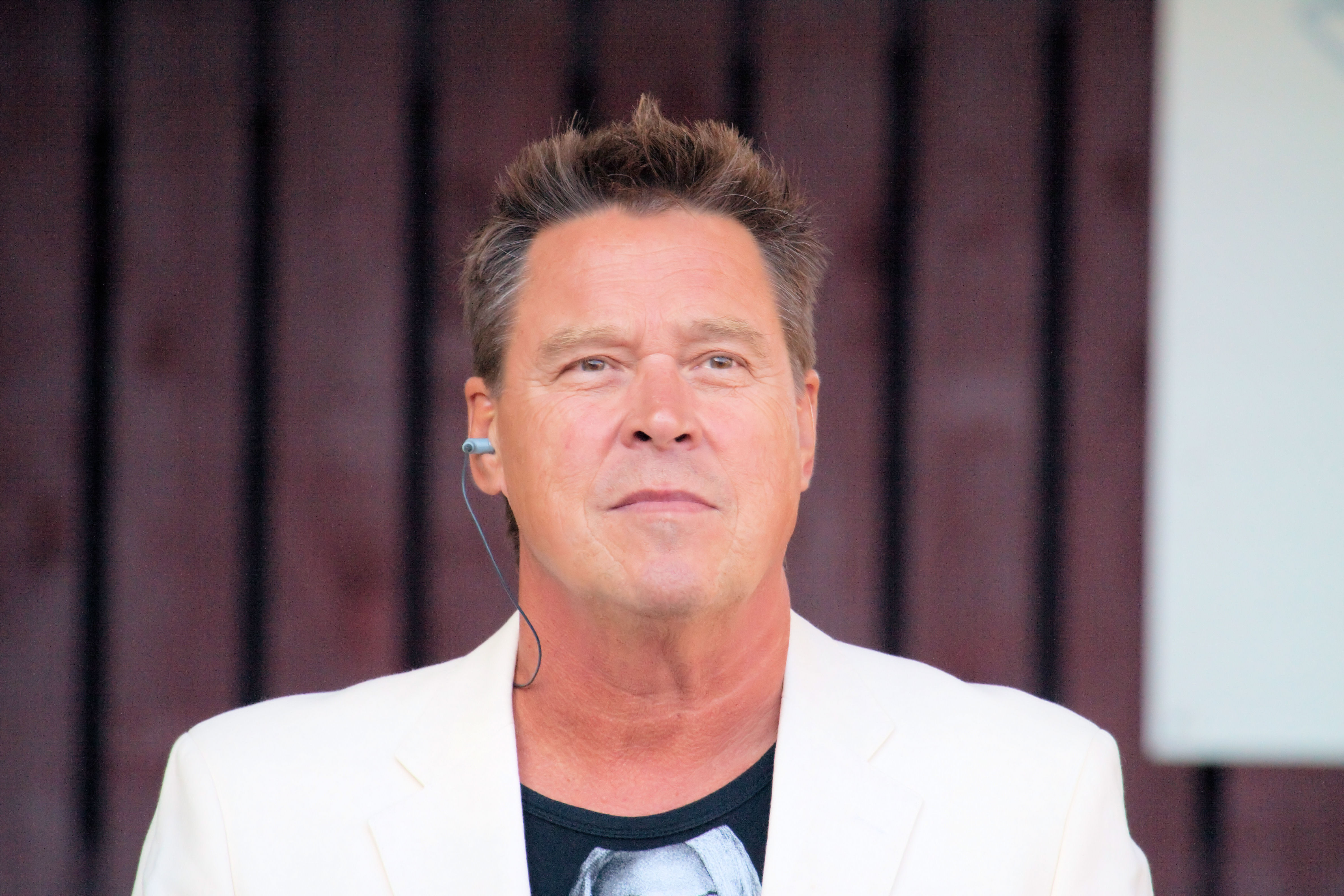 Markku Aro finnish singer